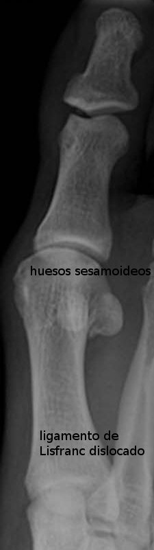 Oblique foot radiograph, big toe. Note the collinear relationship at the adjacent tarsometatarsal joints, indicative of a Lisfranc ligament dislocation.